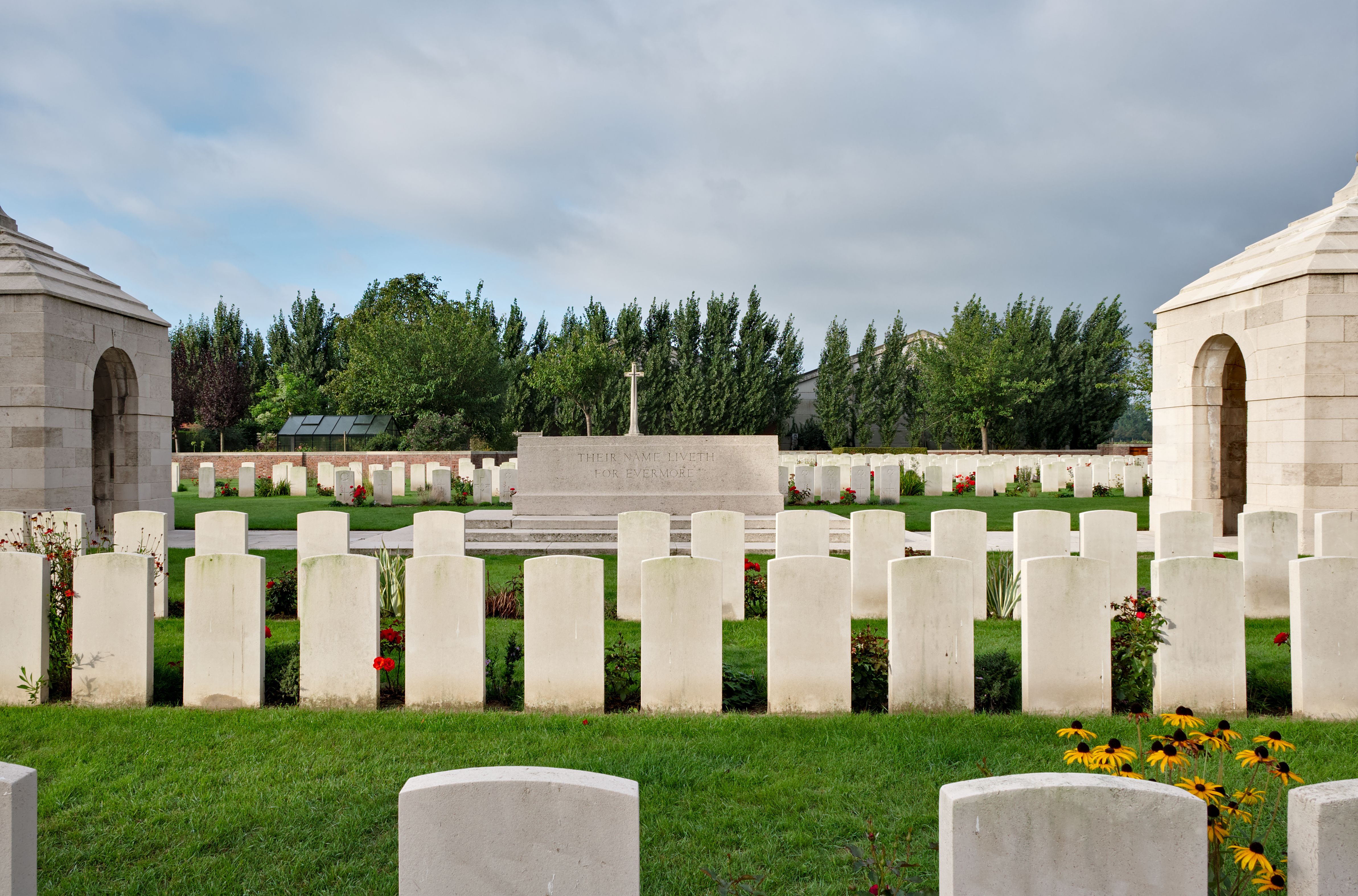 Voormezeele Enclosures Commonwealth War Graves Commission Cemeteries (Enclosures No.1 and No.2) in Ypres, Belgium This photo of immovable heritage has been taken in the Flemish Region